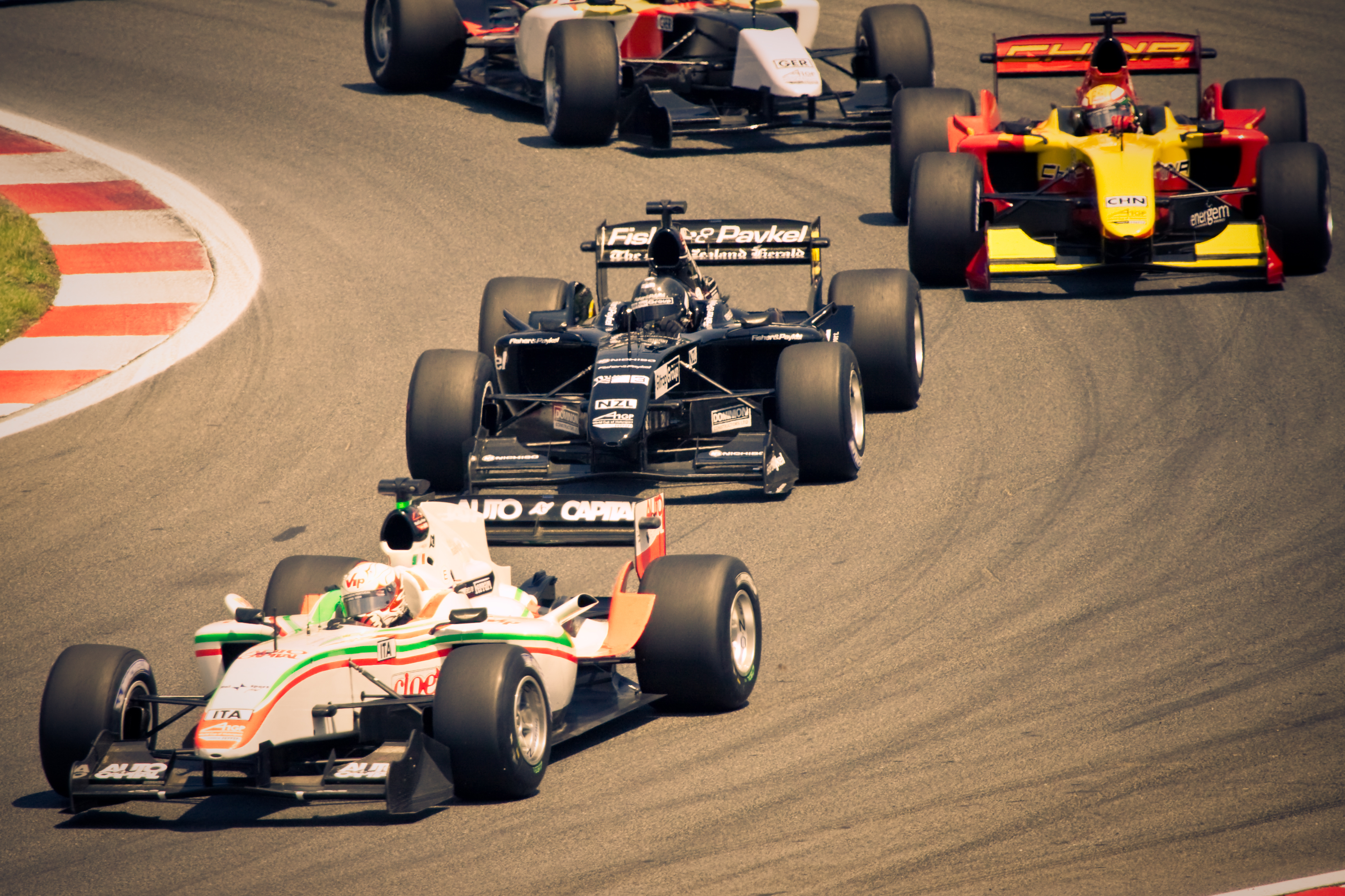 A1 Grand Prix Kyalami South Africa 2009